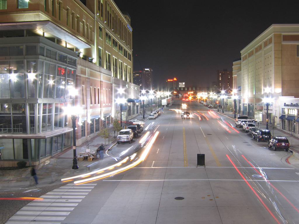 Looking east along West 100 South in Salt Lake City, Utah (as viewed at night from the pedestrian bridge west of Rio Grande Street in The Gateway).